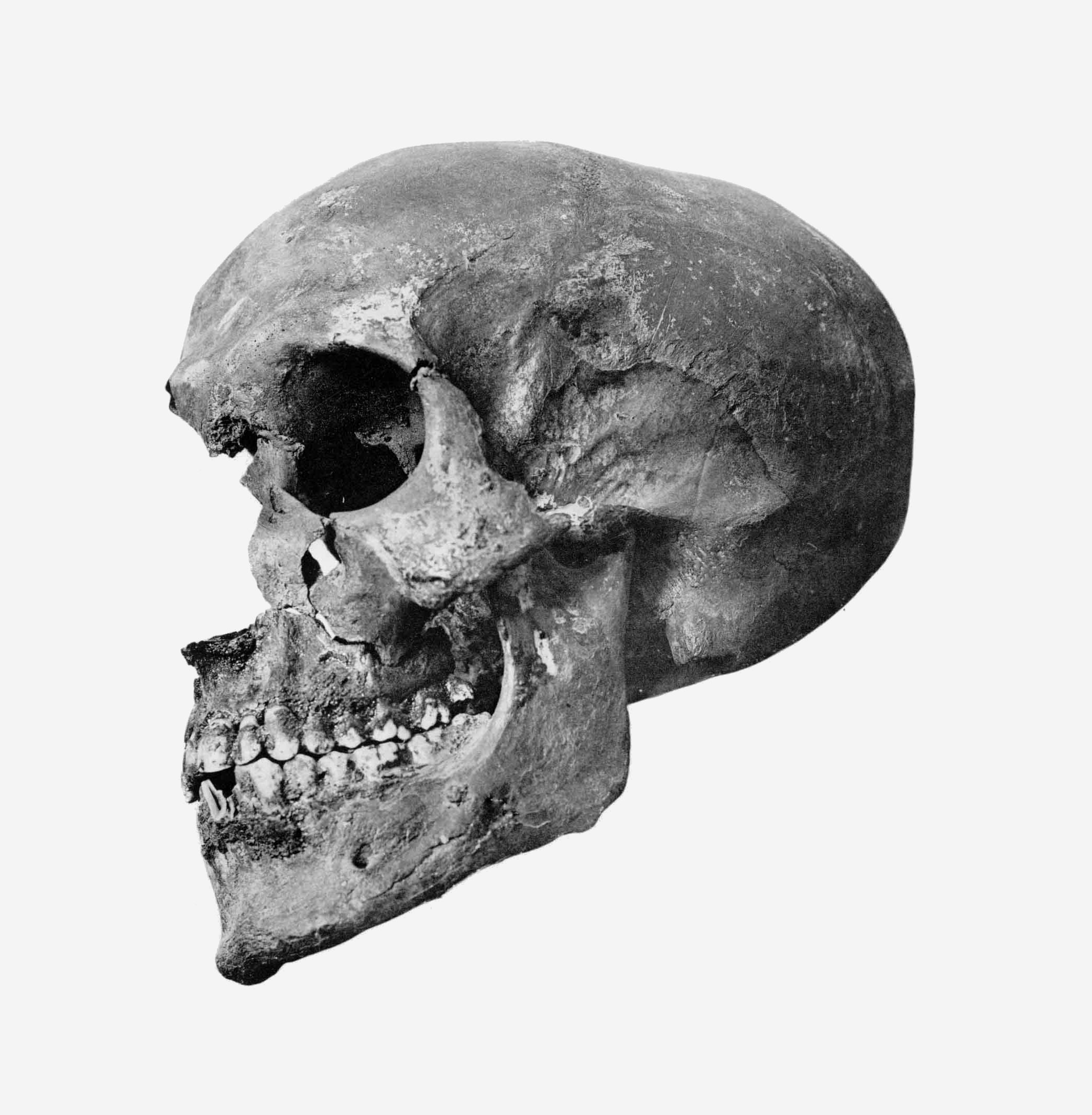 Left profile view of the skull found in tomb KV55. Note that this image shows the extensive damage to the front of the skull. Image derived from Grafton Elliot Smith's "The Royal Mummies" (Plate XXXVI), which was first published in 1912. The author died in 1937 so the book/image is in the public domain. Recent genetic tests have conclusively demonstrated that this individual was the father of Tutankhamun. The JAMA eSupplement from Feb. 17, 2010 concludes tha "the results demonstrate that the mummy in KV55 is the son of Amenhotep III and father of Tutankhamun, leading to the assumption (also supported by the radiological findings) that the mummy can be identified as Akhenaten." (eSupplement, p.3).